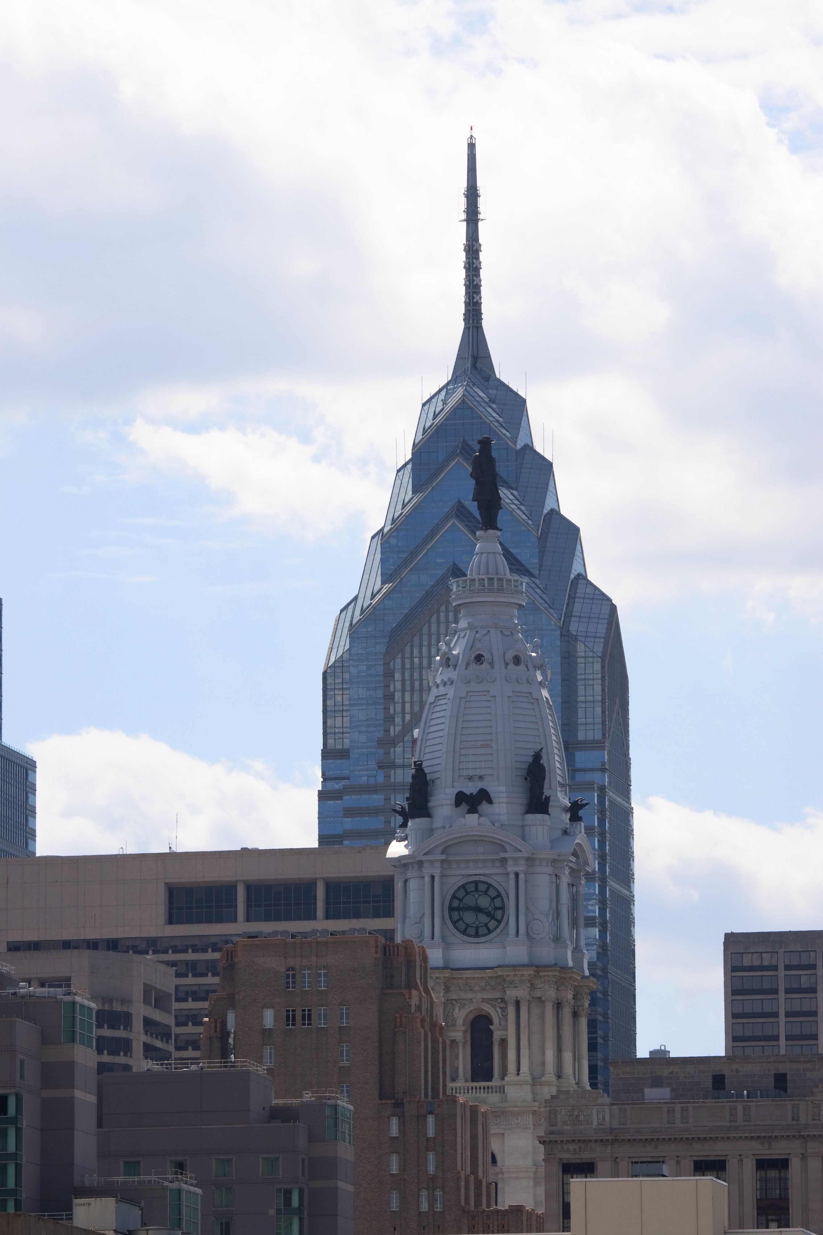 Two of Philadelphia's former highest structures stand side by side in this photograph. In front we have the tower of City Hall and in the back One Liberty Place.